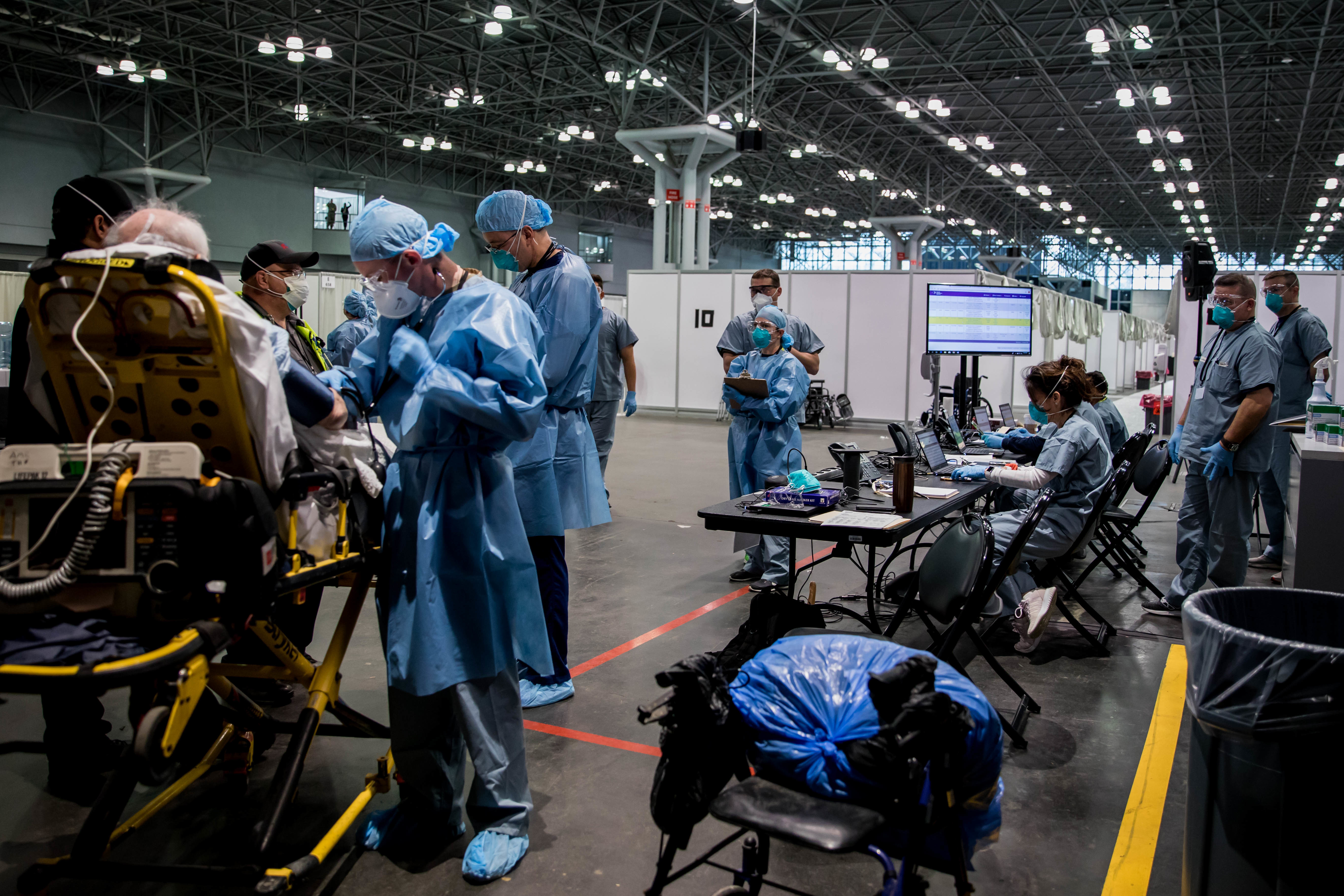 Army Spc. Daniel Fields, assigned to the 9th Hospital Center, takes a patient’s blood pressure reading in the Javits New York Medical Station (JNYMS). Soldiers, along with Department of Health and Human Services personnel and other federal, state and local agencies began operating a field hospital out of the JNYMS, March 30, to care for non-COVID-19 patients in an effort to relieve the burden on local hospitals, allowing them to focus on coronavirus patients.